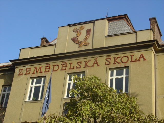 Agricultural school in Kadaň.